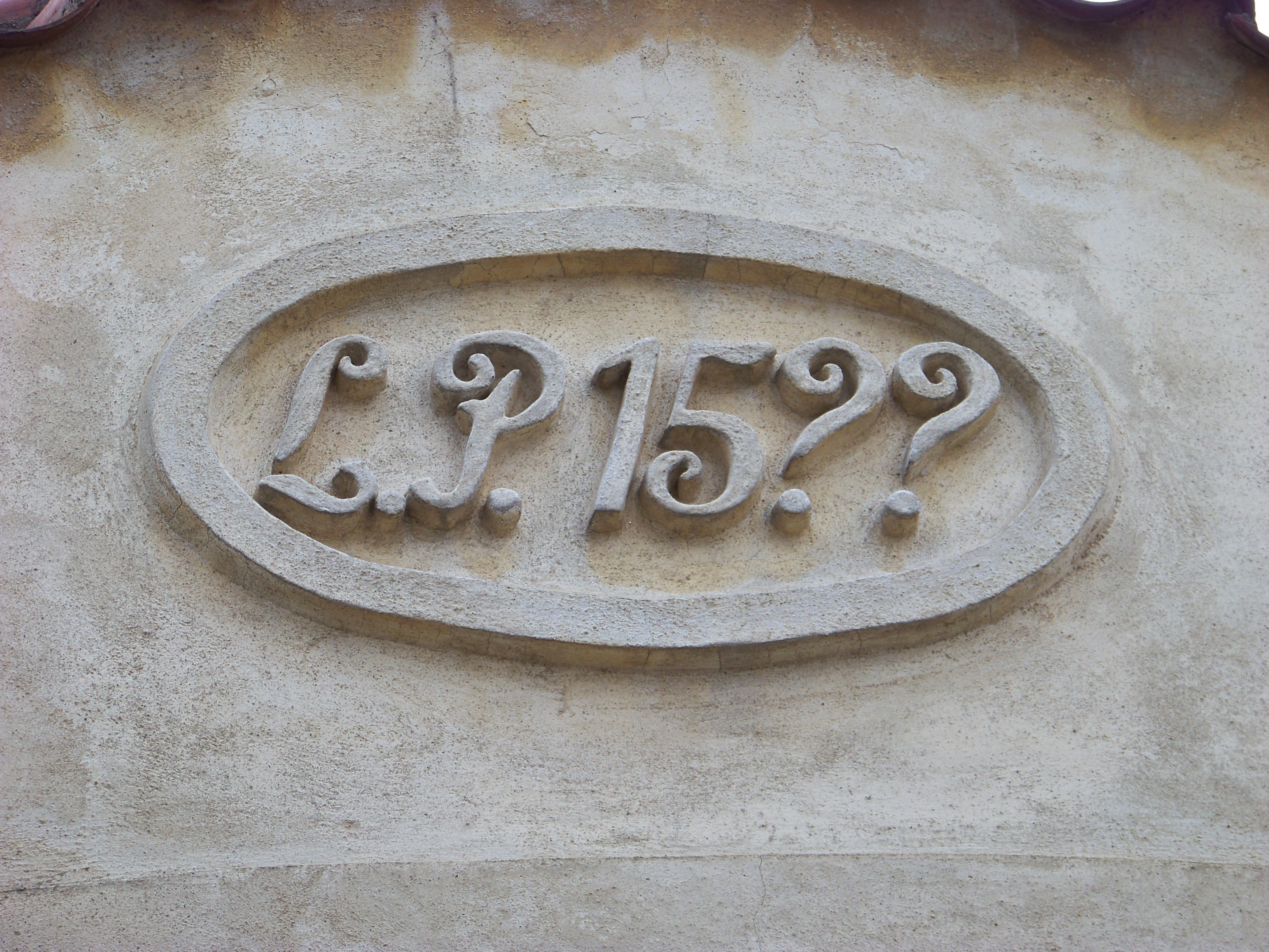 Úholičky, Prague-West District, Central Bohemian Region, the Czech Republic. Náves 11, L.P. 15?? on the gate. - Google Maps - Google Earth